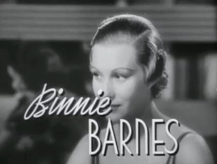 Binnie Barnes in The First Hundred Years, film by Richard Thorpe (1938)